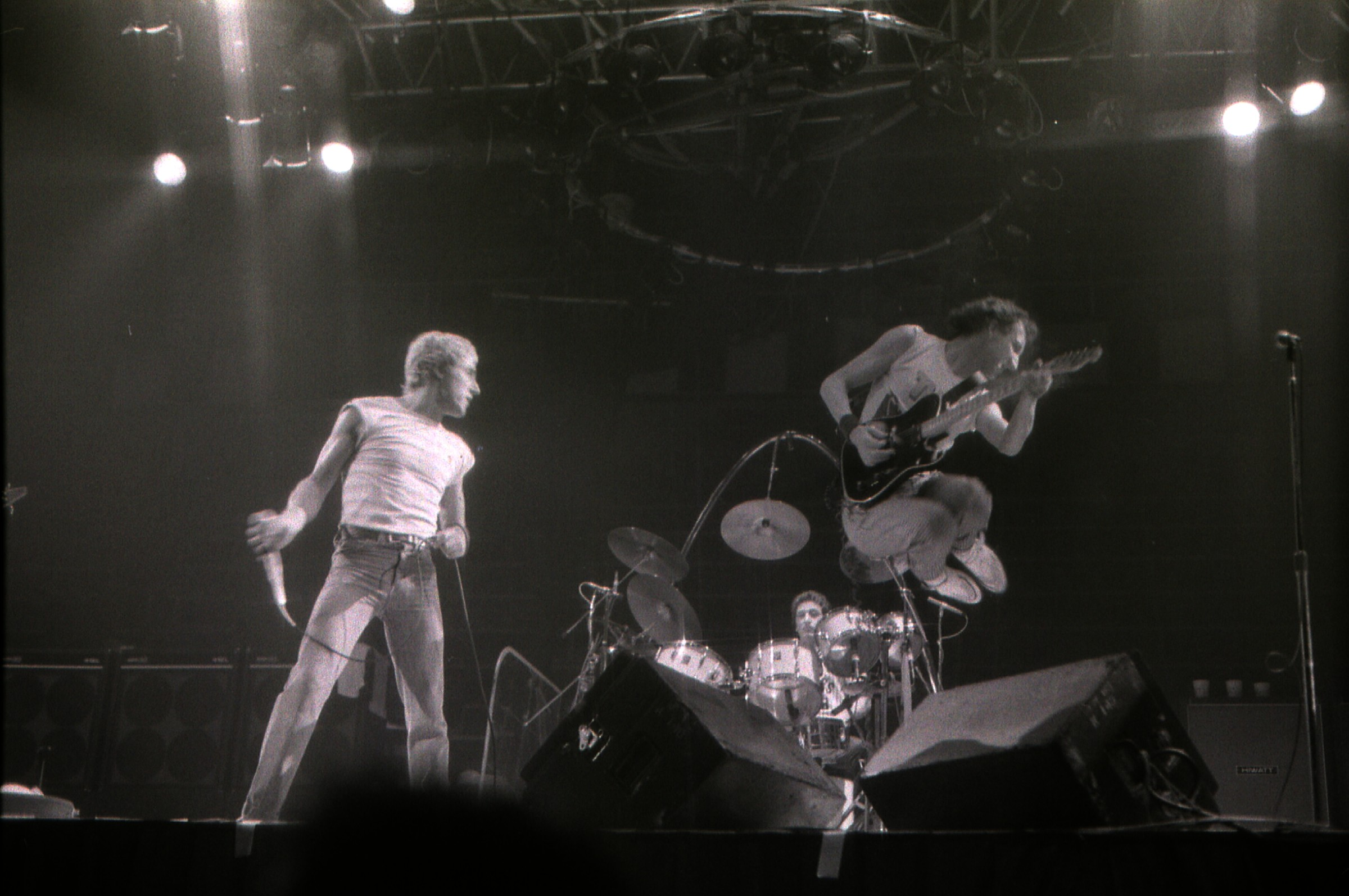 MLG, Toronto, May 6, 1980 Photo by Jean-Luc Ourlin